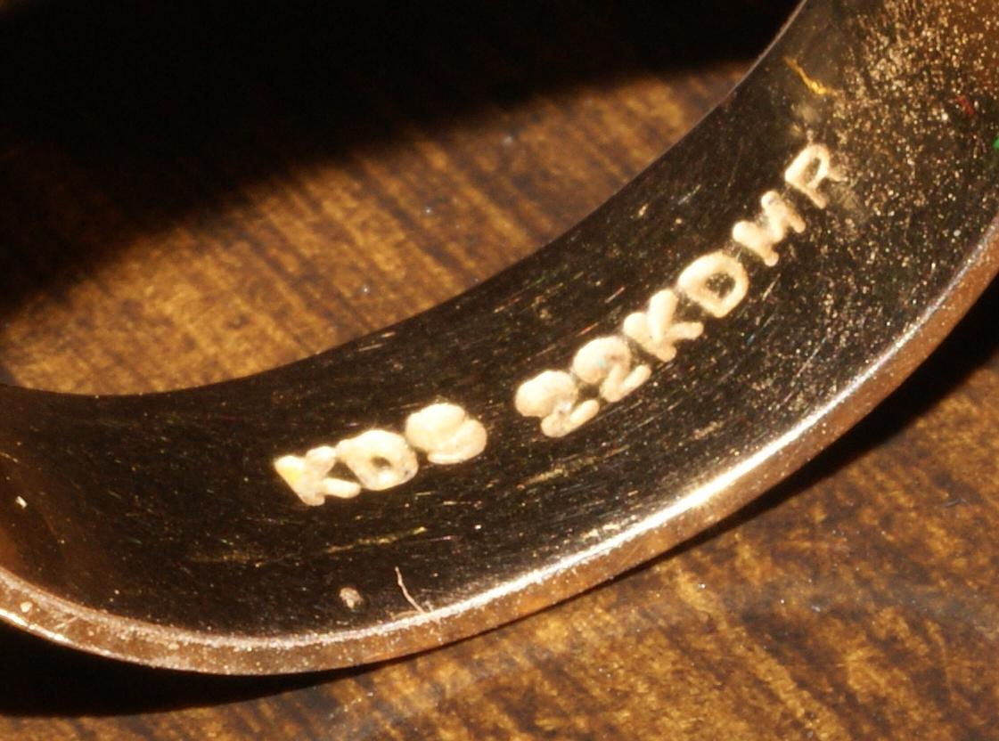 This photograph shows the carat inscription on a gold ring.